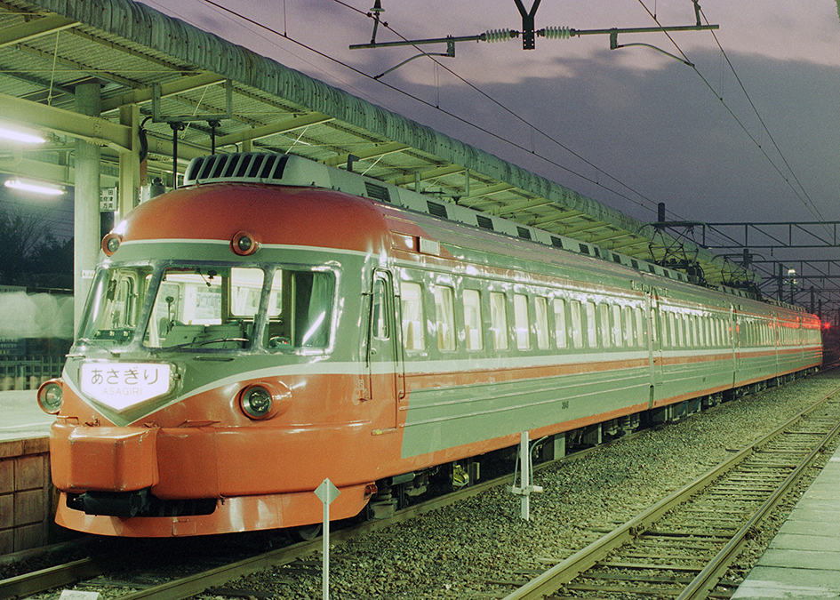 Odakyu 3000 series "SSE" EMU set 3041 at Gotemba Station on an Asagiri service